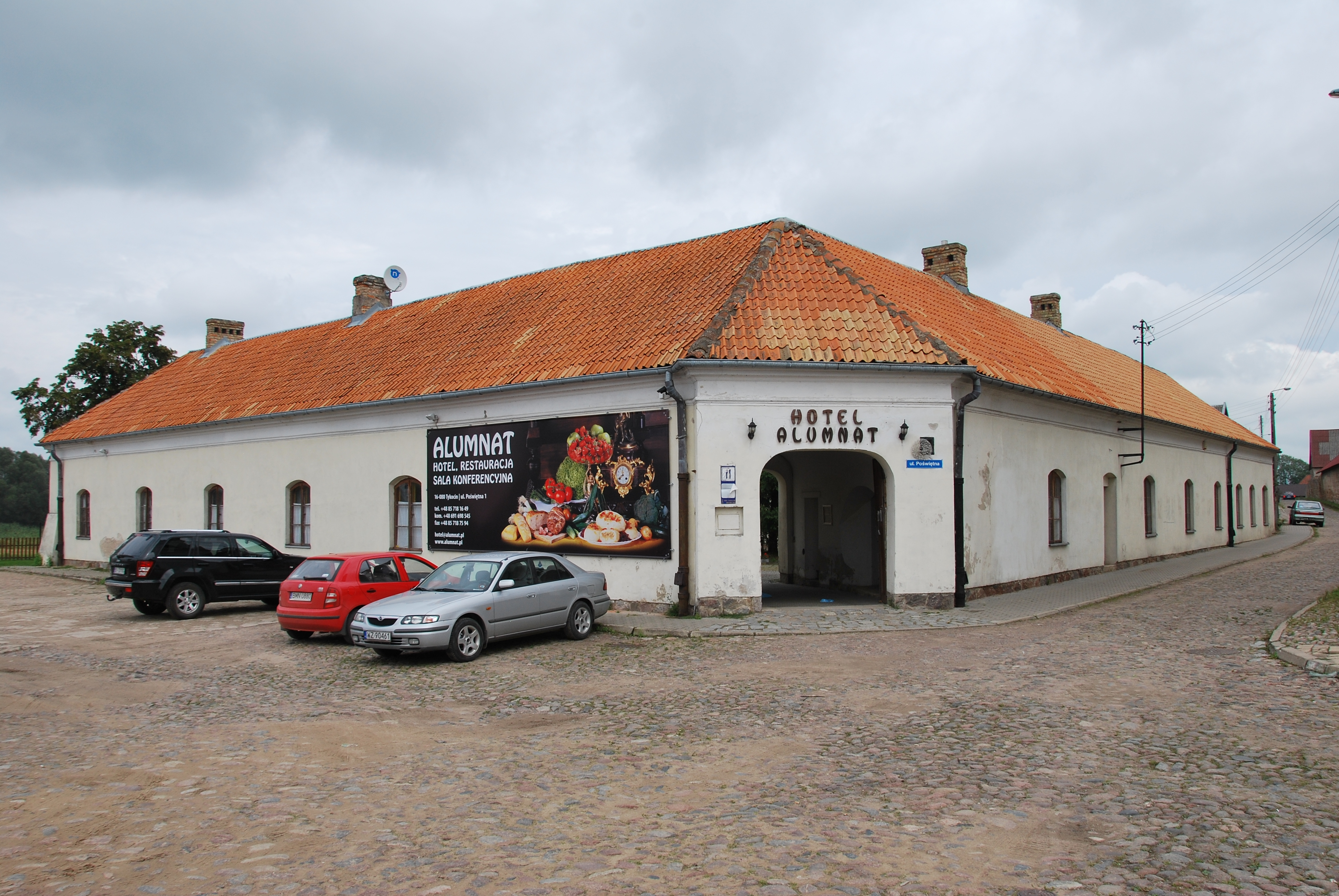 Alumnat Hotel, Tykocin